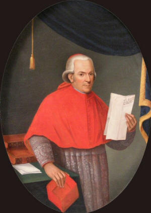 Benedetto Naro, cardinal of the Roman Catholic Church